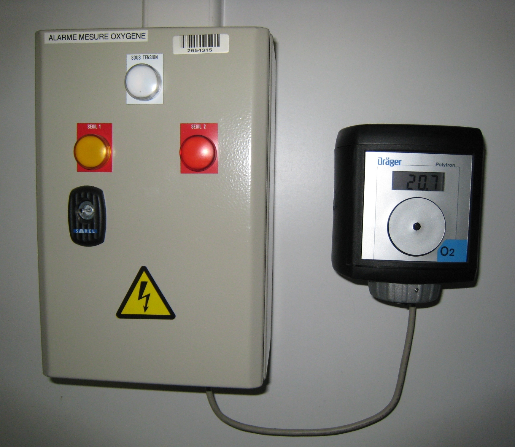 Fixed safe gas detector system equipped with electrochemical diffusion sensor for monitoring the concentration of toxic gases (NH3, CO, Cl2, H2S, NO2, NO, SO2, etc.) and oxygen (O2) (case represented) in ambient air. Monitoring the concentration of O2 is often used with a liquid nitrogen installation (example: see photo below).